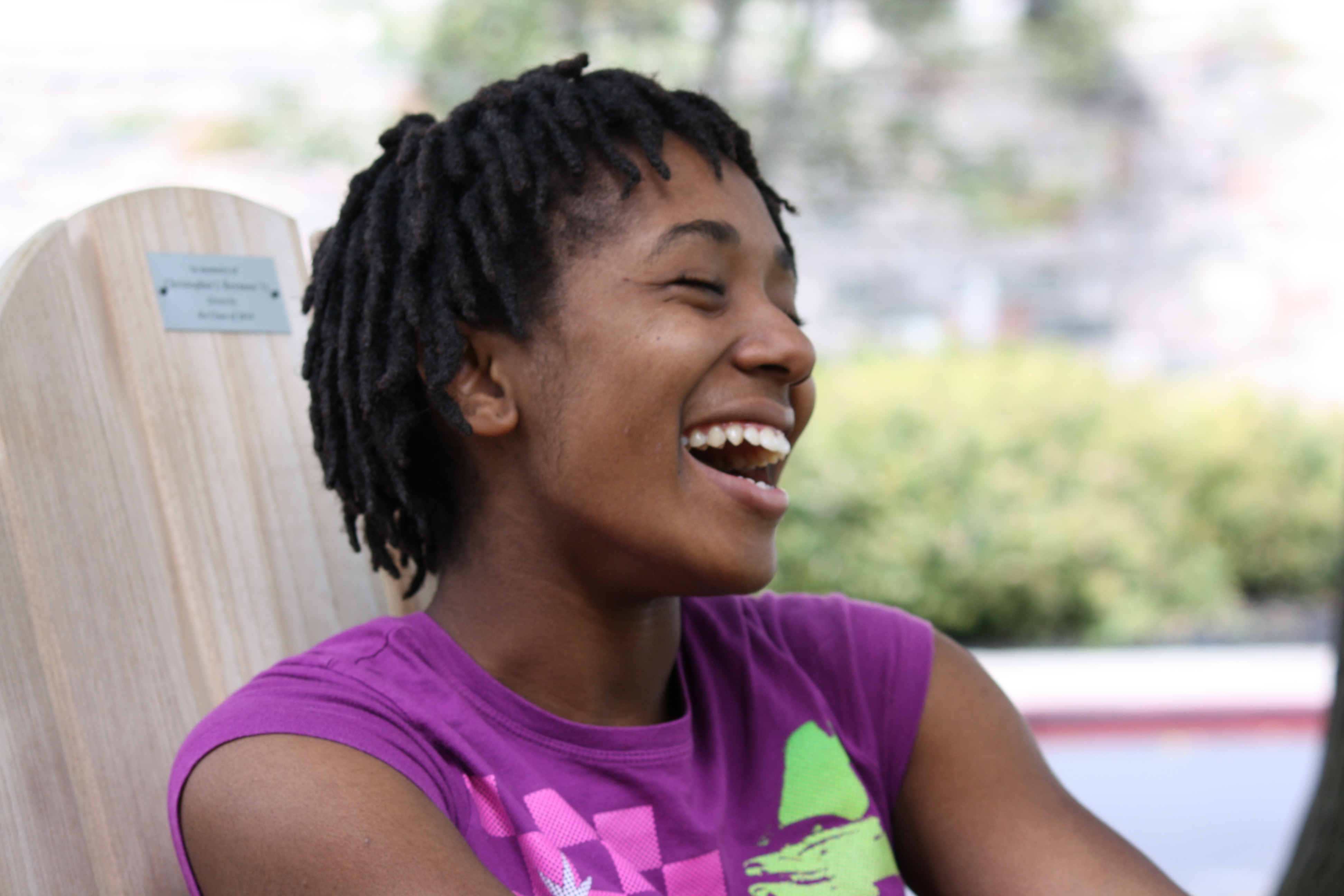 Here is a picture of Kameisha Jerae at a photoshoot with Jackie Fonteyne